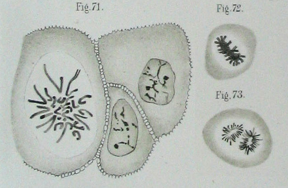 Possibly the oldest drawing of human chromosomes. Translation of the original figure legend from 1882: "Some of many seen divisions in the human Cornea, cop. from 38, chromic acid-Safranin." 38 refers to a publication from W. Flemming from 1881. (see German legend above for details).